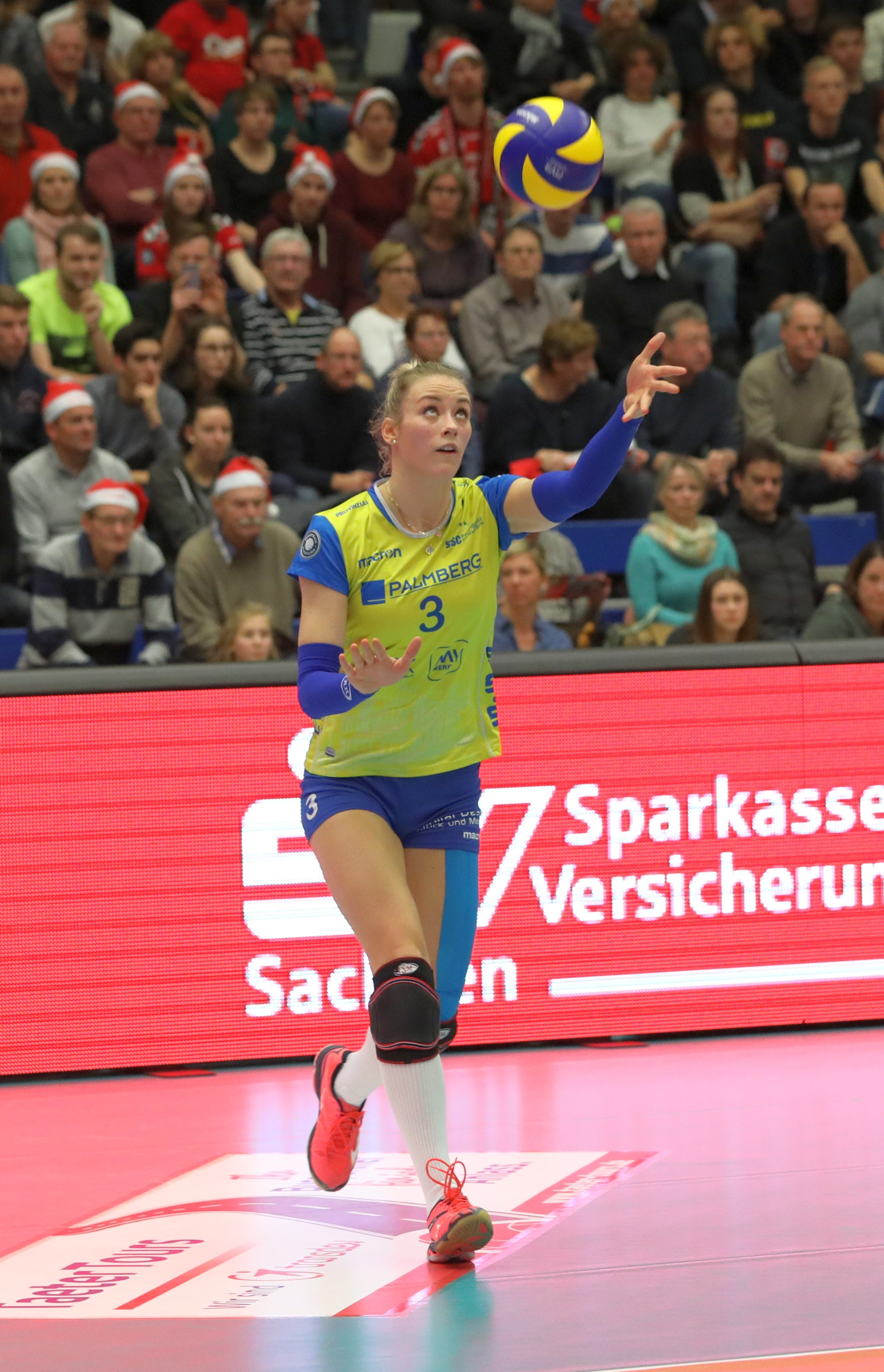 Lauren Barfield (SSC Palmberg Schwerin) at the game of the Dresdner SC vs. SSC Palmberg Schwerin (3:2; 20:25, 25:7, 21:25, 27:25, 15:13) at the 6th December 2017)